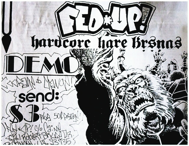 Fed Up! demo cassette ad from hardcore zine Razor's Edge, 1988.